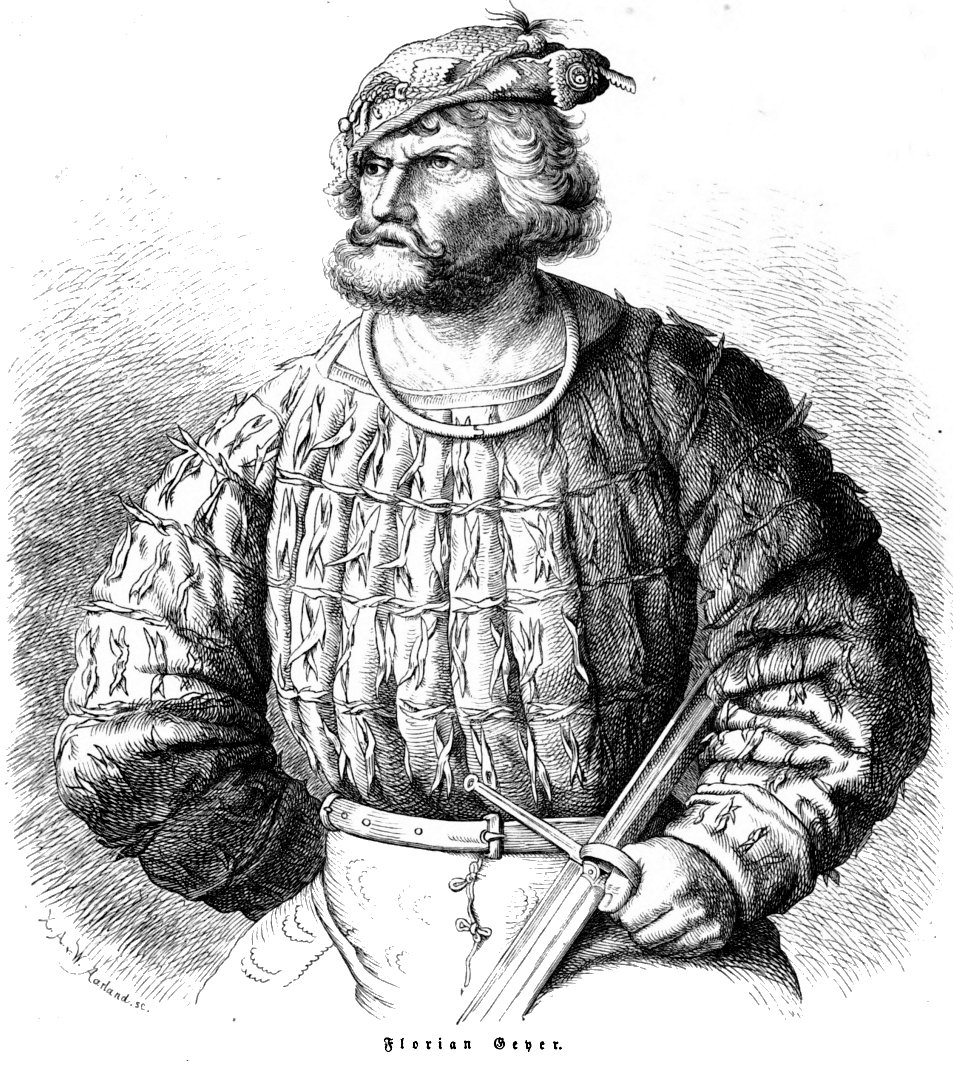 caption: "Florian Geyer."